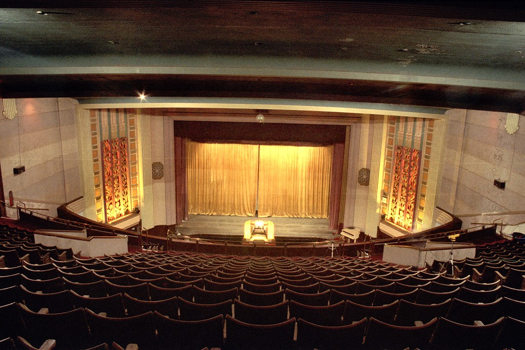 Auditorium in State Cinema, Grays.